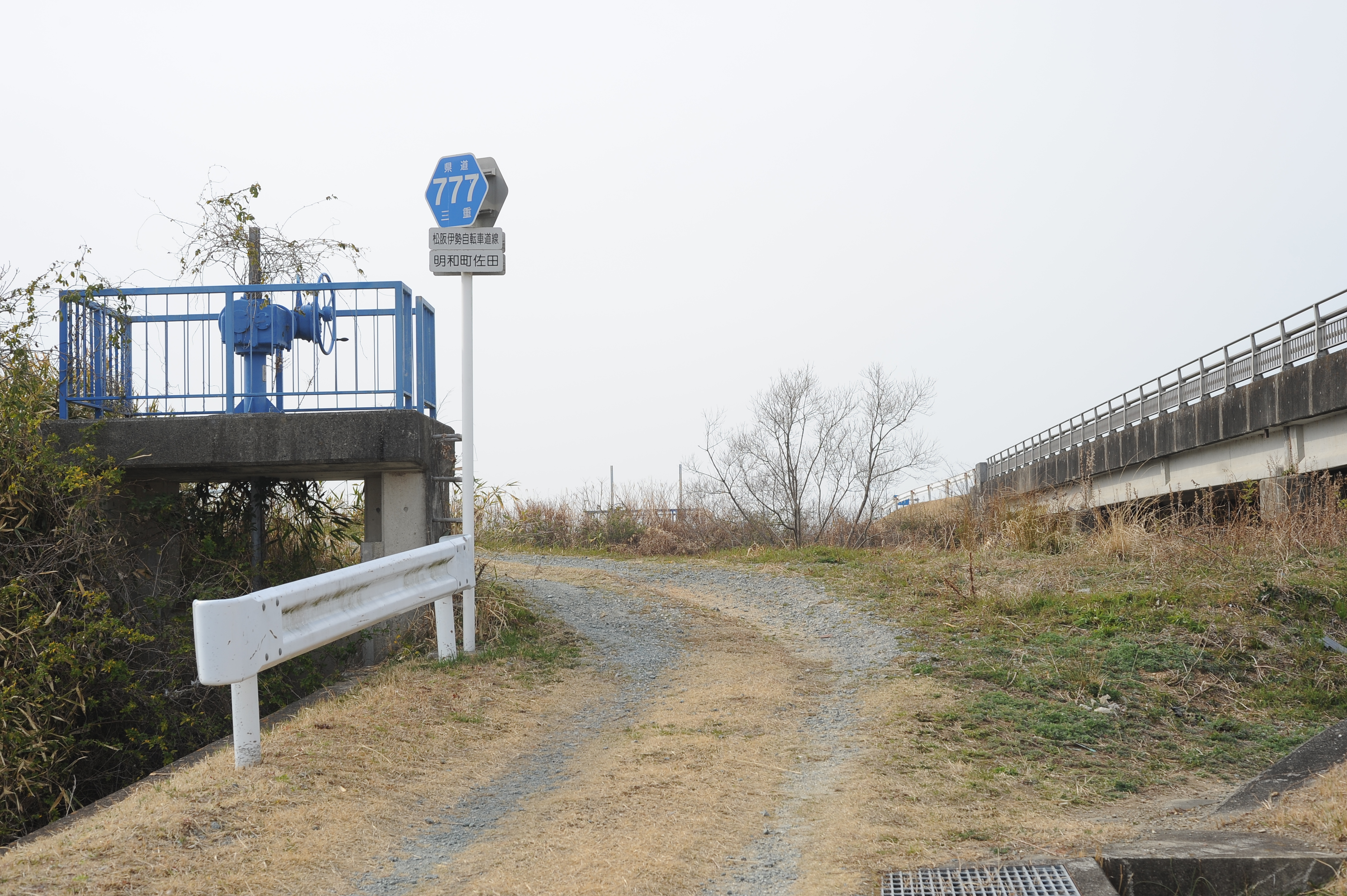 Mie Prefectural Route 777, Meiwa, Mie